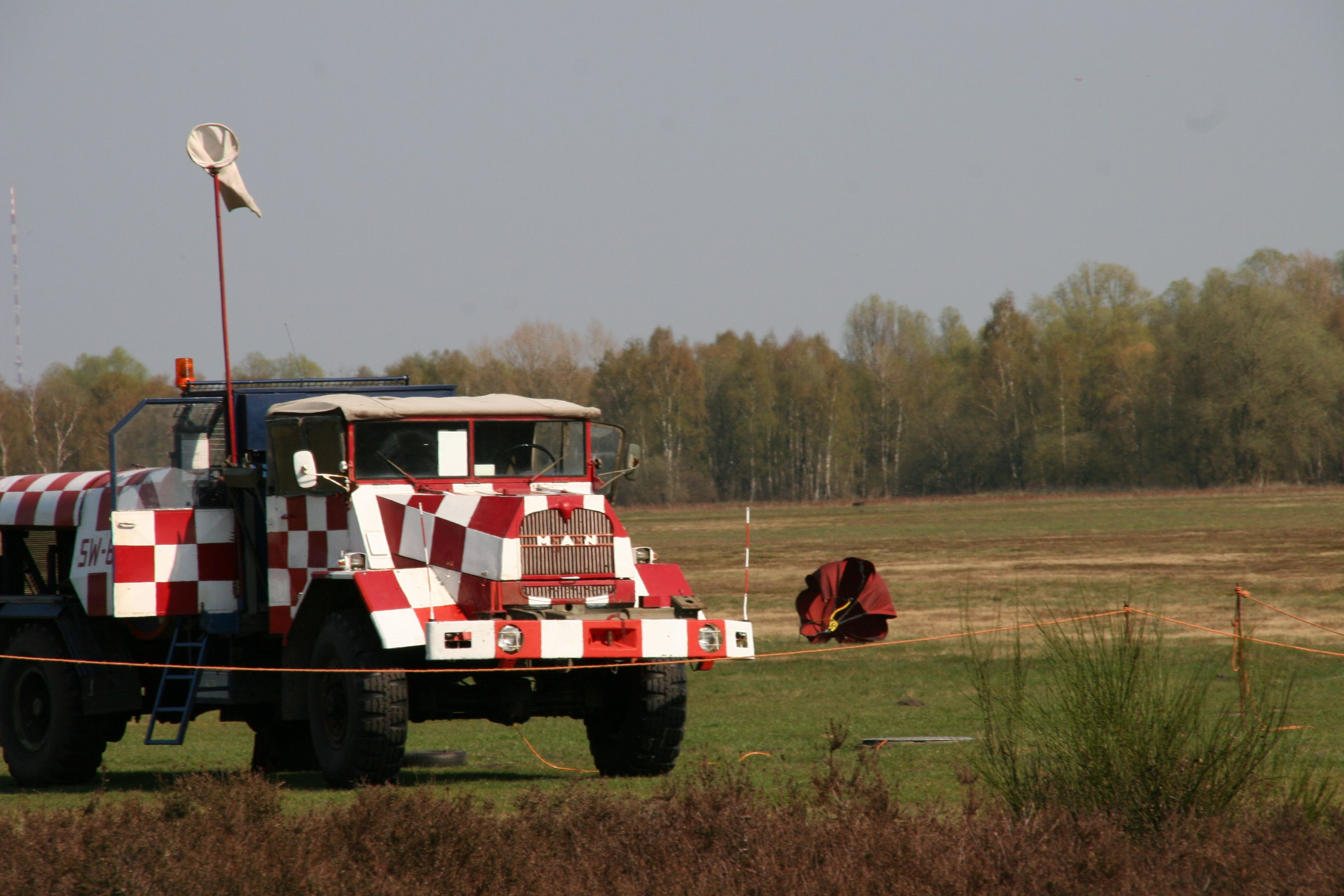 Bramsche-Achmer: truck for wind launch